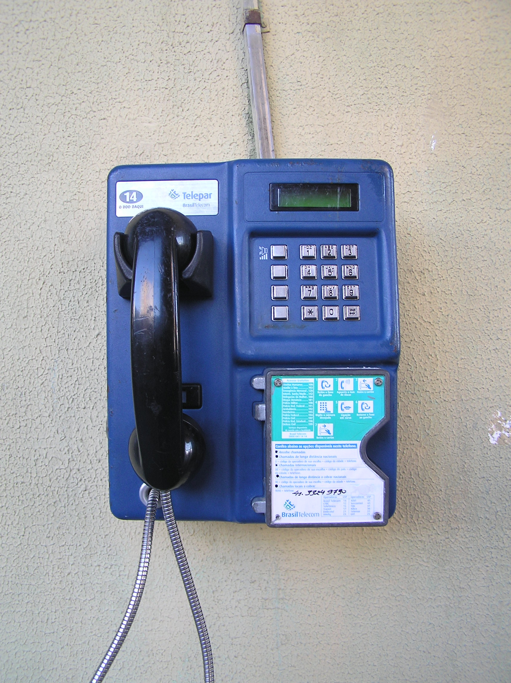 Telephone booth in Curitiba